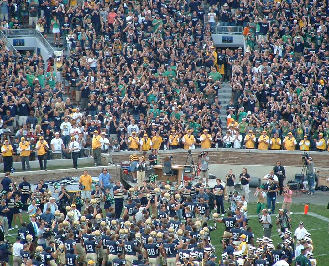 The helmet raising tradition after an ND win, after the conclusion of the 2006 Notre Dame vs Penn State game